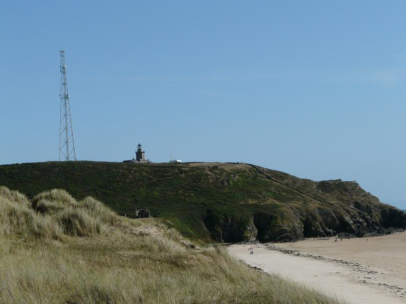 Carteret Cape shot from the Hatainville Beach (North of the Cape).